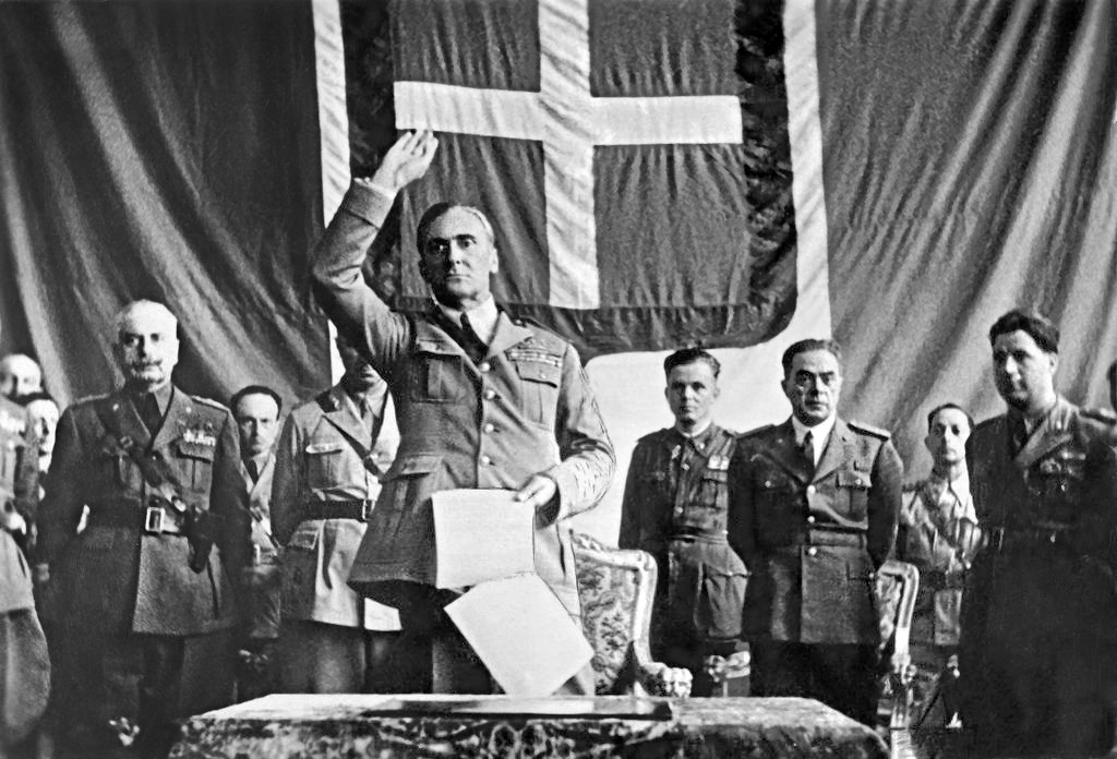 The Ethiopian viceroy Rodolfo Graziani adopts in an act of submission abyssinian aristocrats in Addis Ababa.